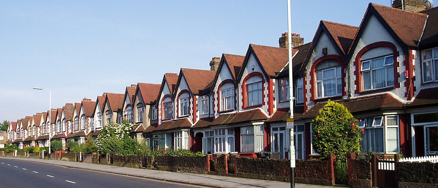 Numbers 341 to 385 Lordship Lane, London N17 from the gallery at Lordship Lane, London N17. Taken with an Olympus µ [mju:] 300 Digital Camera.